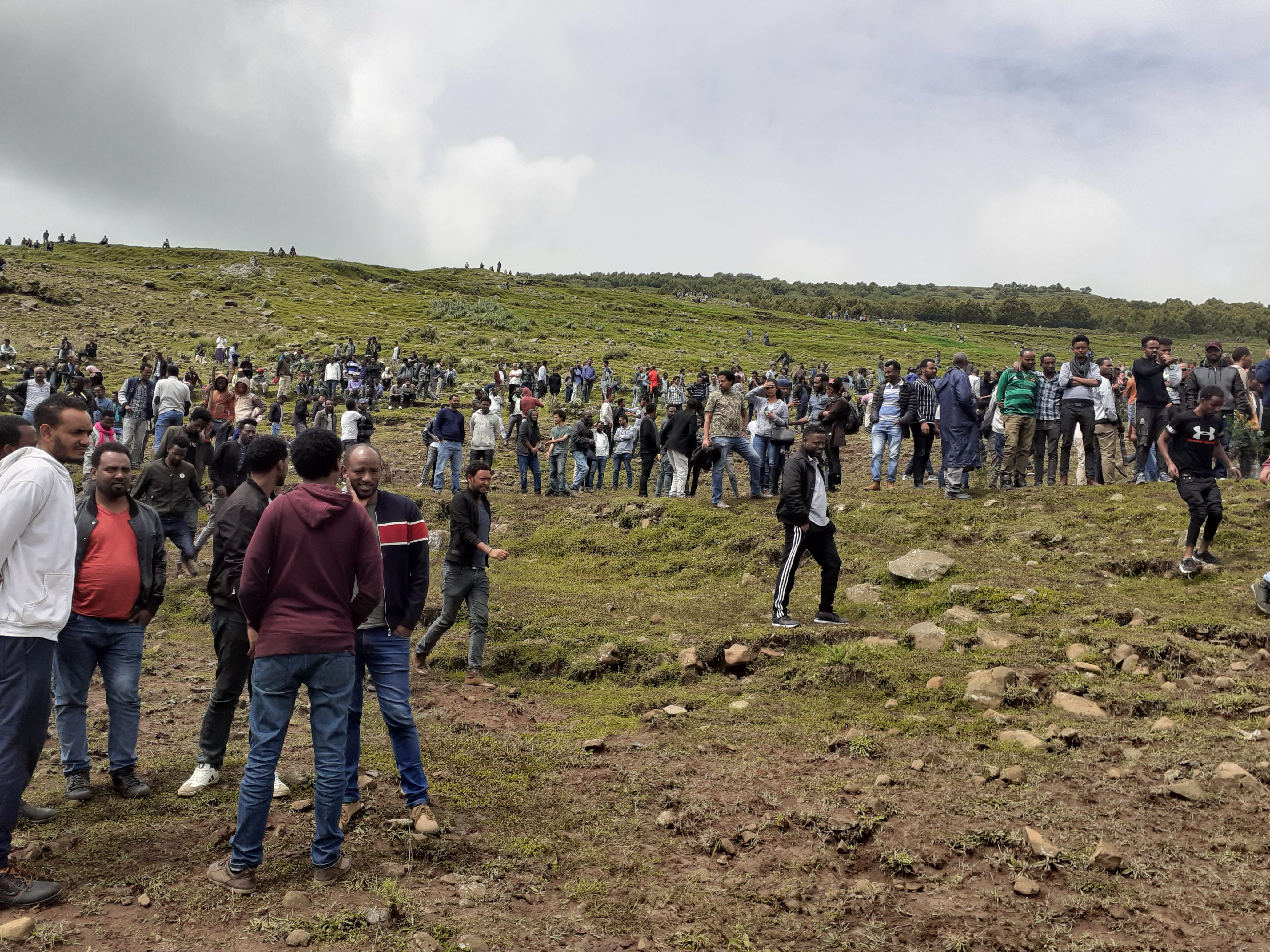 Ethiopians walking through mountains located in Fitche. This is an image with the theme "Africa on the Move or Transport" from: Ethiopia